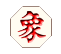 One of the janggi pieces.